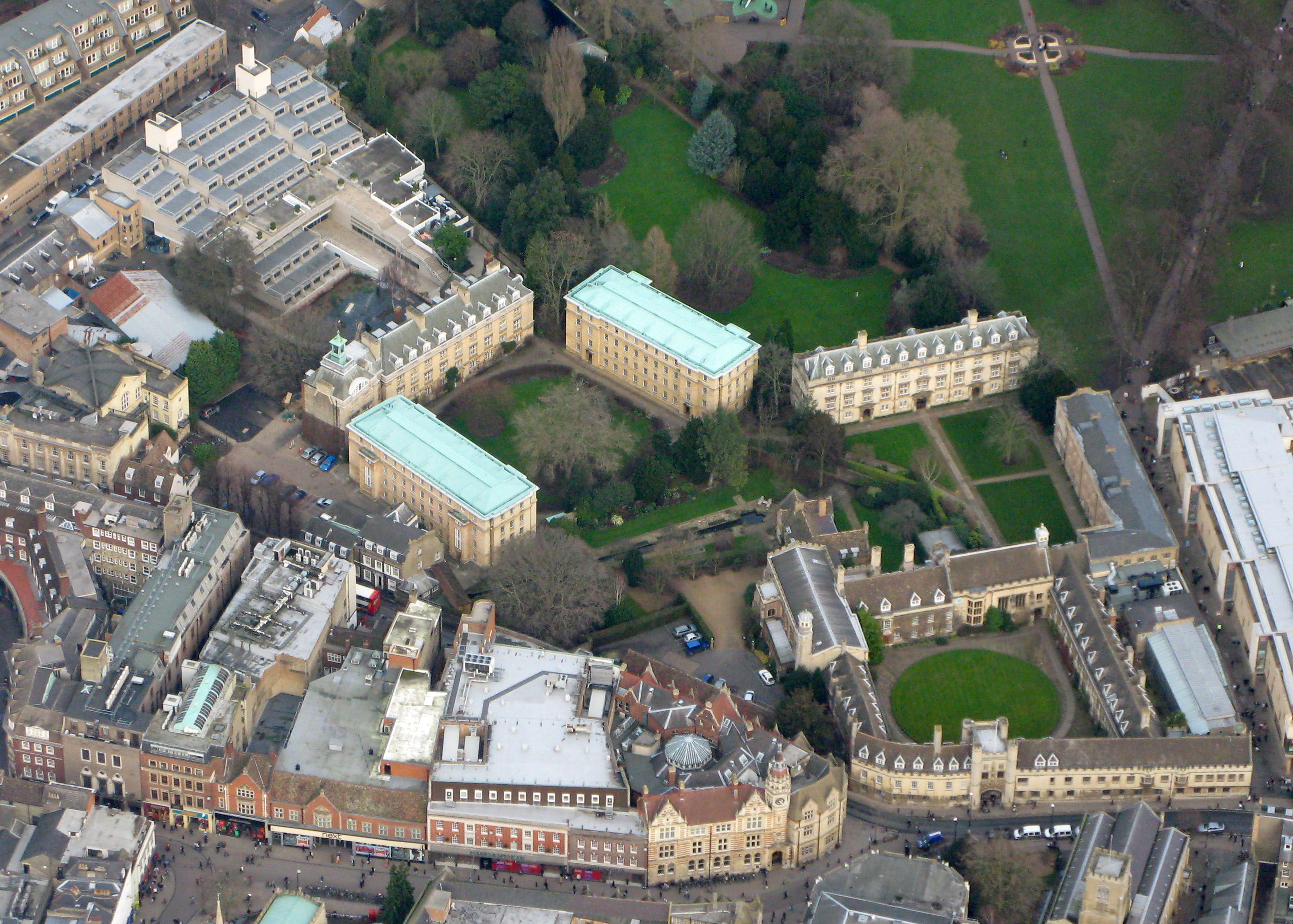 Christ's College, Cambridge, photographed from overhead. Photograph by SM Edwards (m. 1993) whilst piloted by JA Groves (m. 1993).